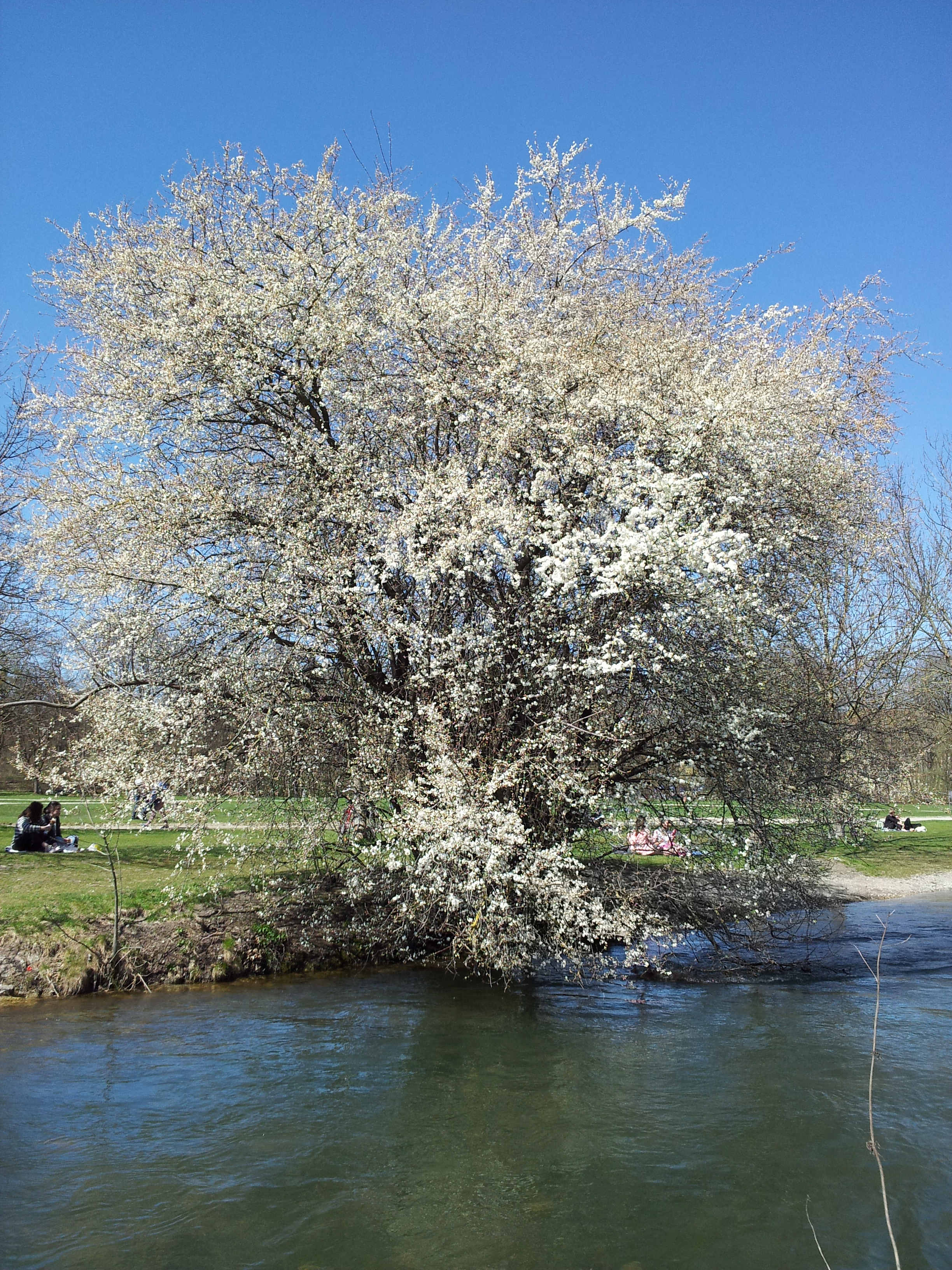 Hawthorn at the beginning of spring, Schwabinger Bach, Englischer Garten, München